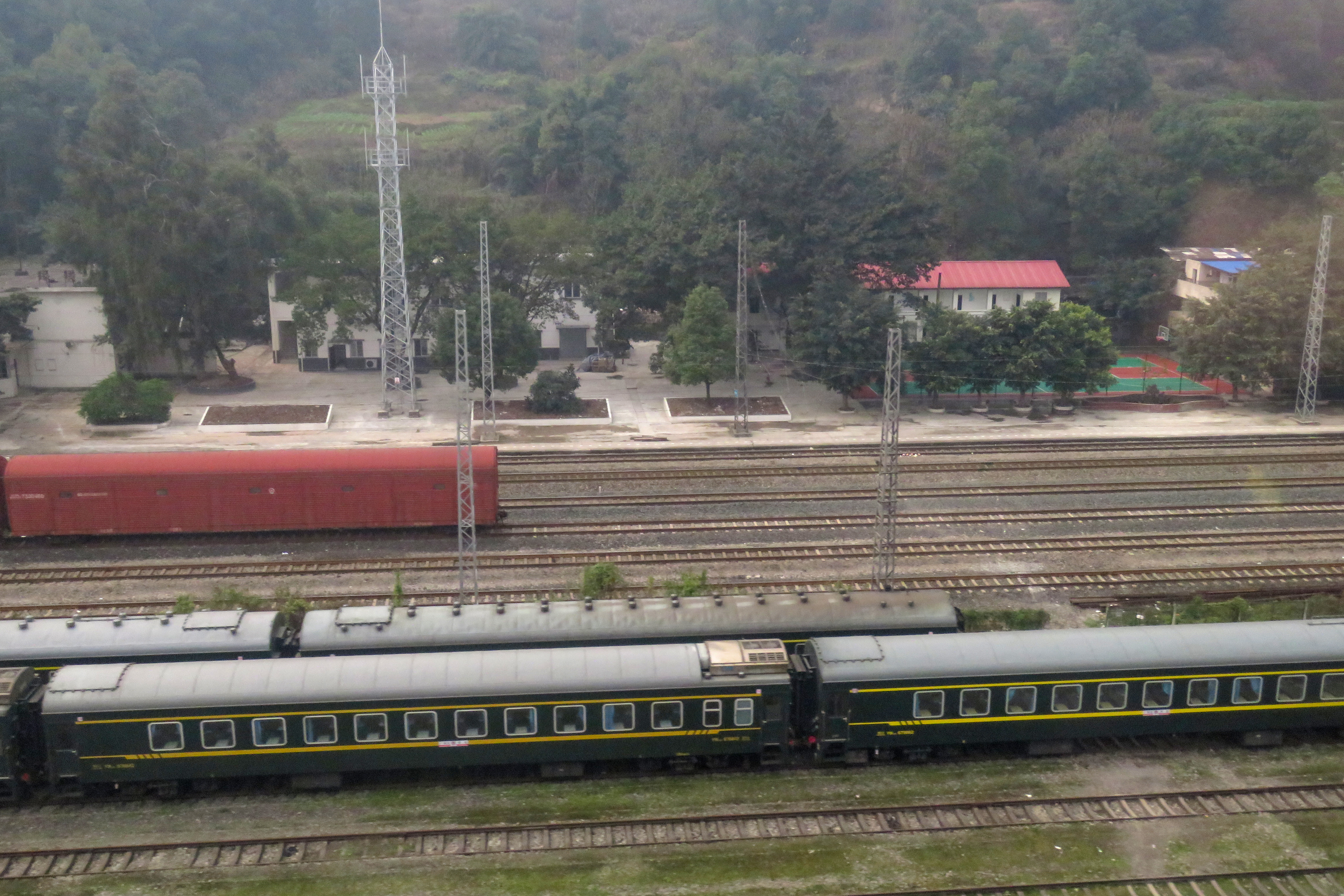 Luohuang Railway Station